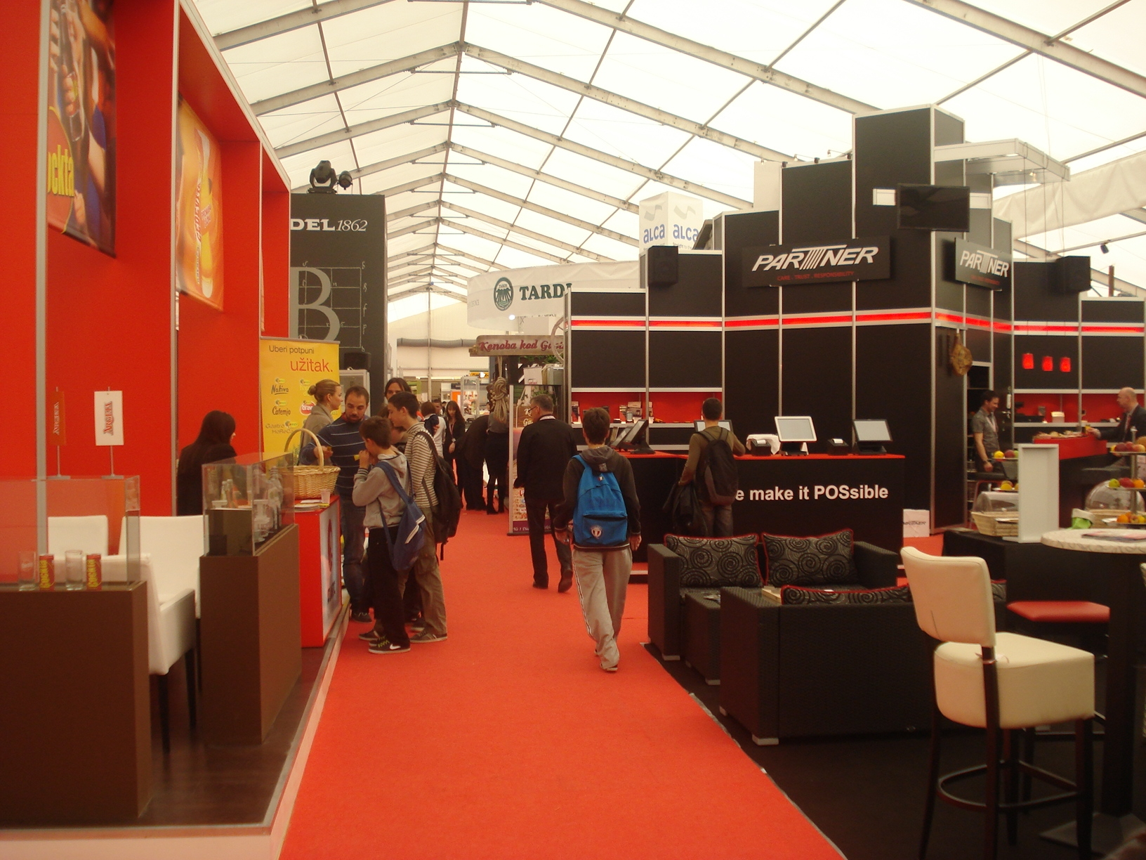 GAST 2012. International Trade Fair in Split, Split-Dalmatia County, Croatia – exhibition hall nr.2